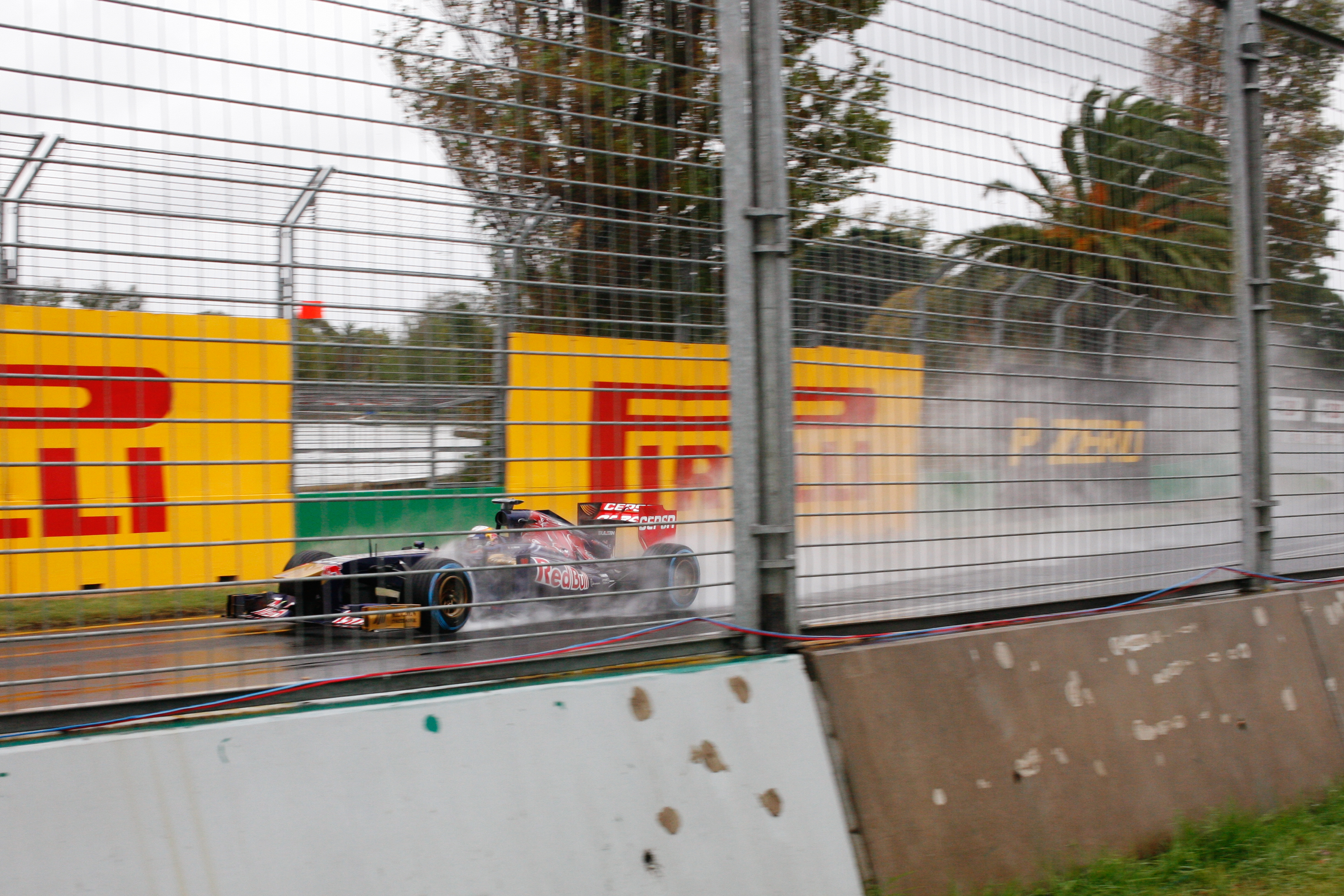 Toro Roso at Formula 1 Melbourne GP 2013